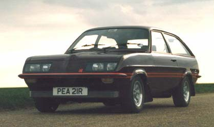 Vauxhall Magnum Sporthatch - photo freely donated to wikipedia by its taker